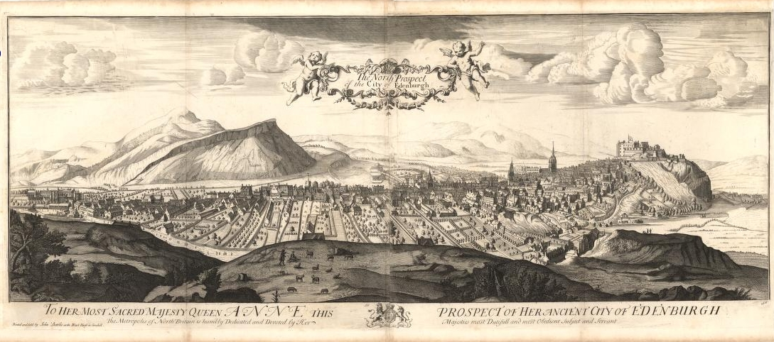 'The North Prospect of the City of Edenburgh' An engraving from John Slezer's 'Theatrum Scotiae' of 1693. (National Library of Scotland)